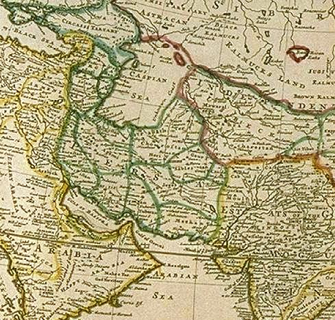 MOLL, Herman c1720